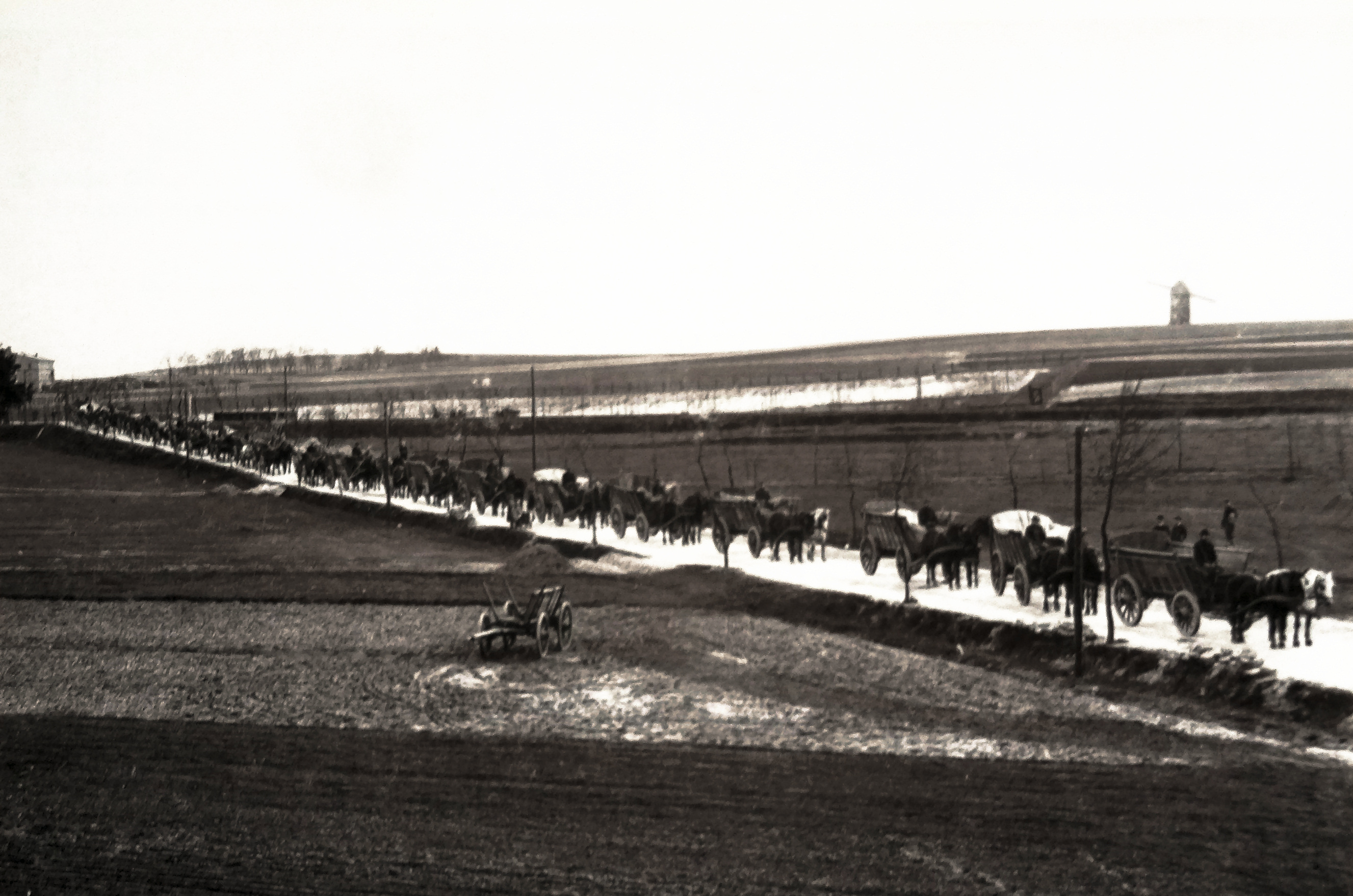 On the left sinde the factory Wuntke, Wendland & Co., in the middle pottery transport on the Marwitz Triftstreet, on the right side the old windmill.